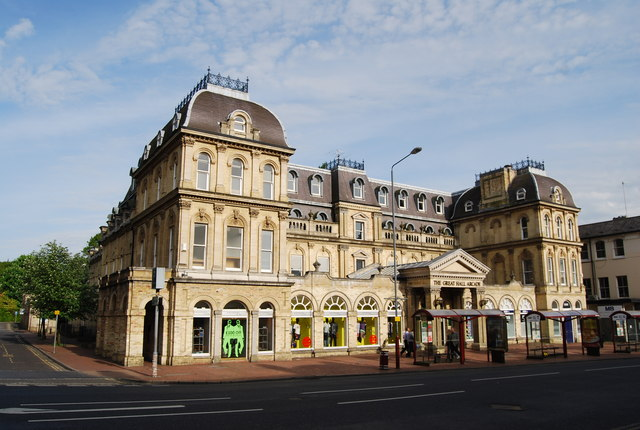 The Great Hall Arcade This large building opposite the railway station is a high quality shopping arcade. It also houses the Tunbridge Wells branch of the BBC, Radio Kent & a BBC shop.